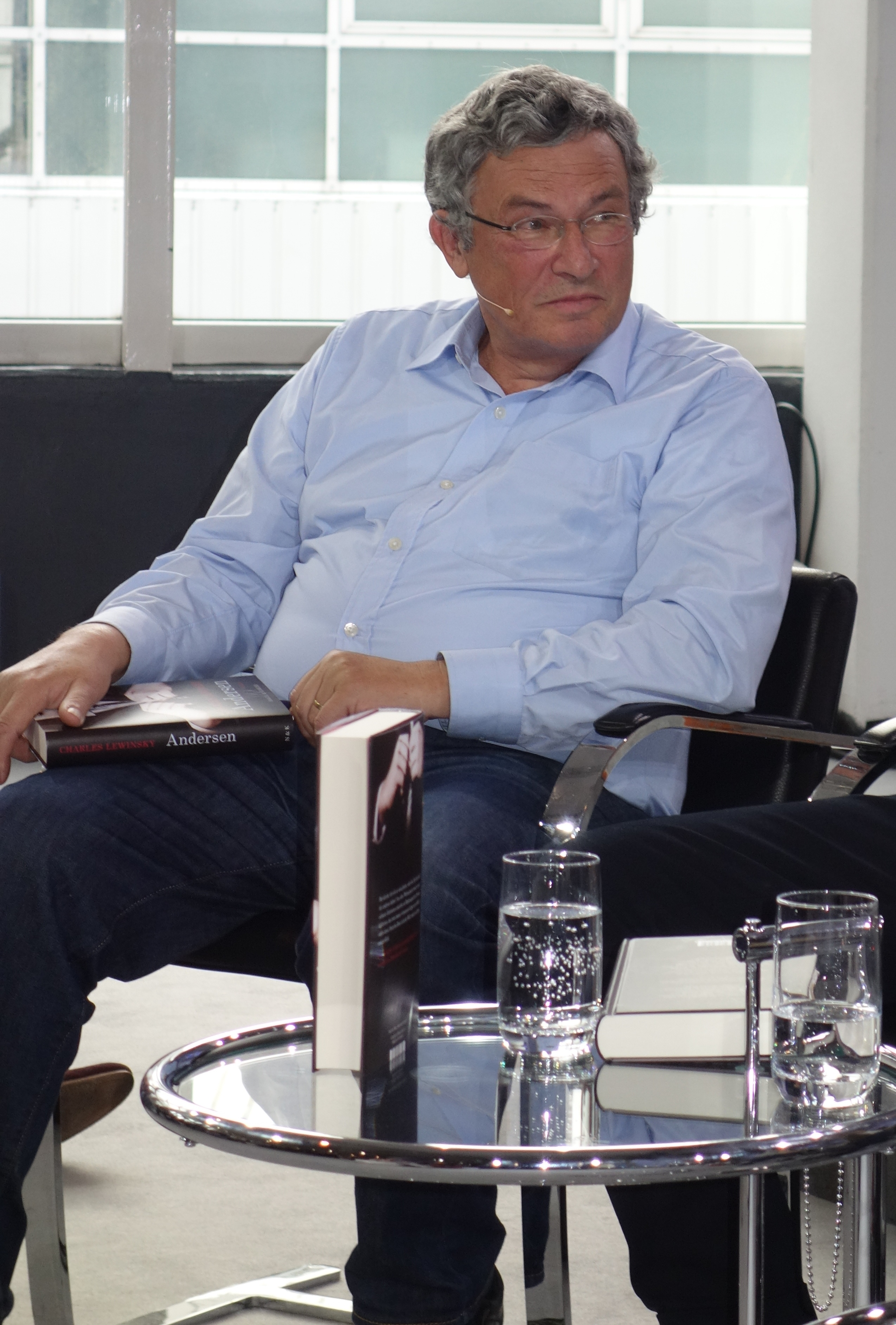 Charles Lewinsky at the Frankfurt Book Fair 2016.